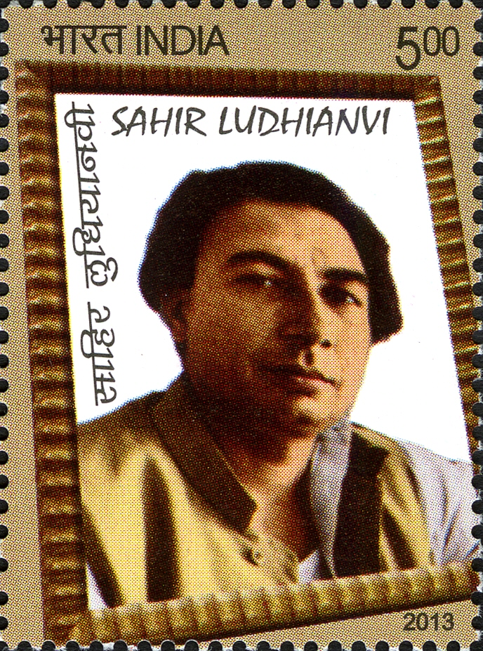 Music & Dance (Musicians & Conductors) Literature, Press and Comics (Writers)